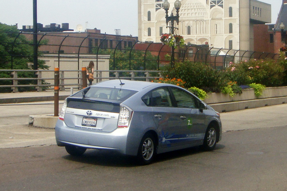 Toyota Prius Plug-in Hybrid demonstration vehicle available to Zipcar members in Boston